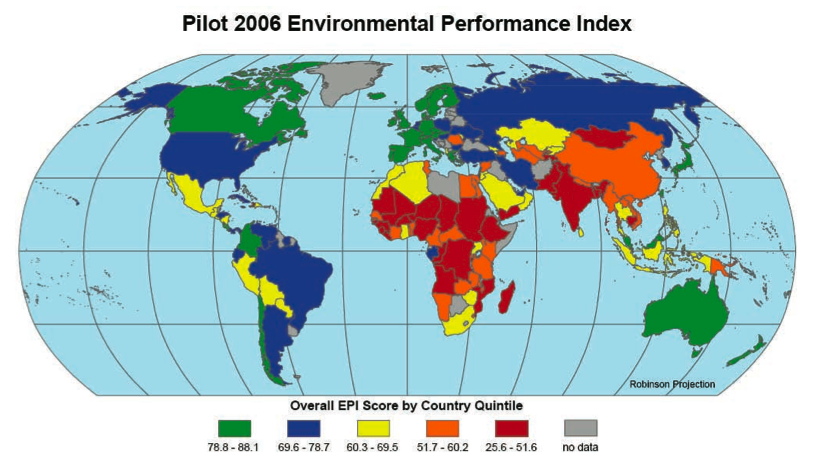 Map of Overall EPI Country Scores by Quintile 2006